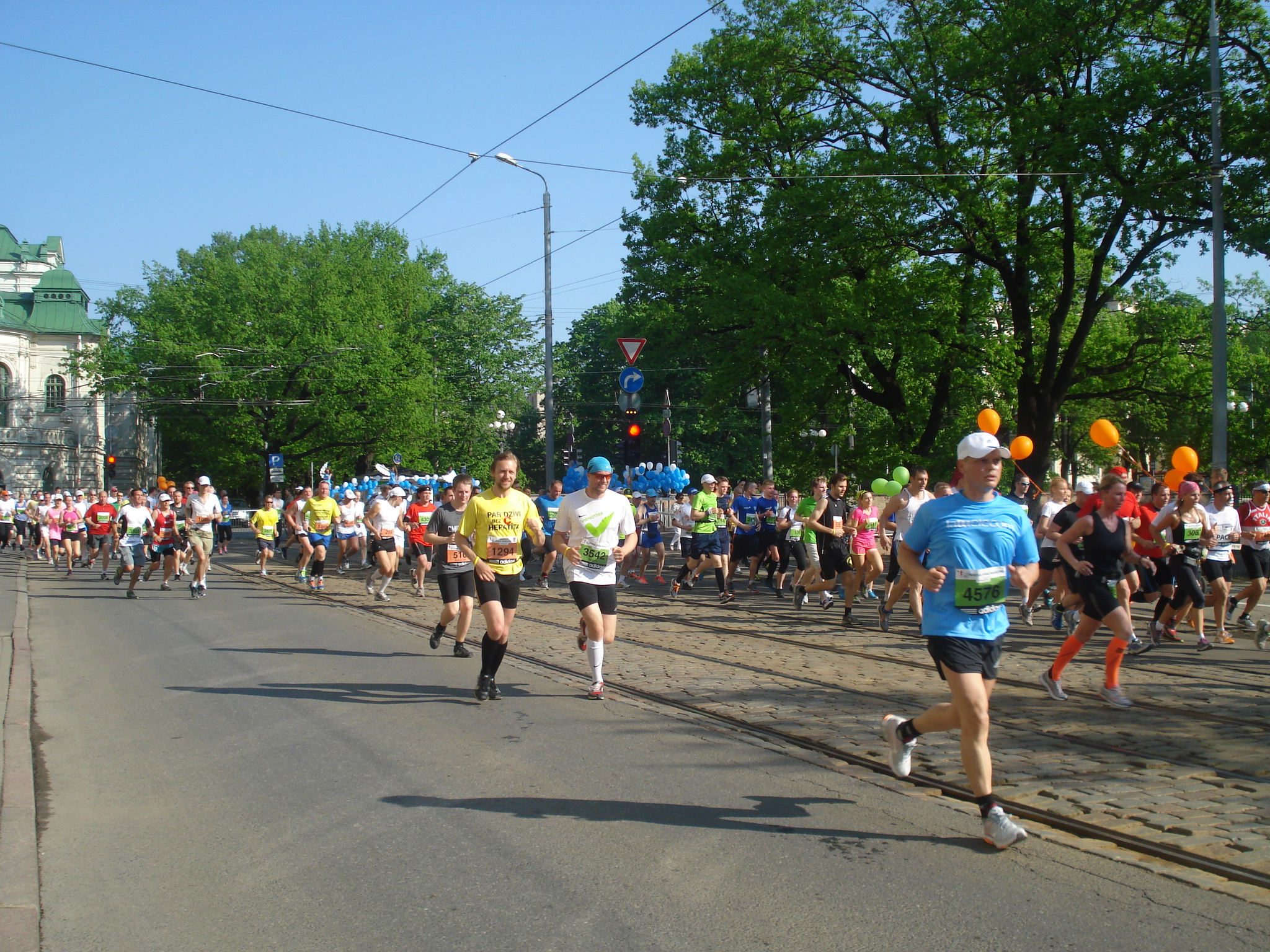 The Riga Marathon 2013